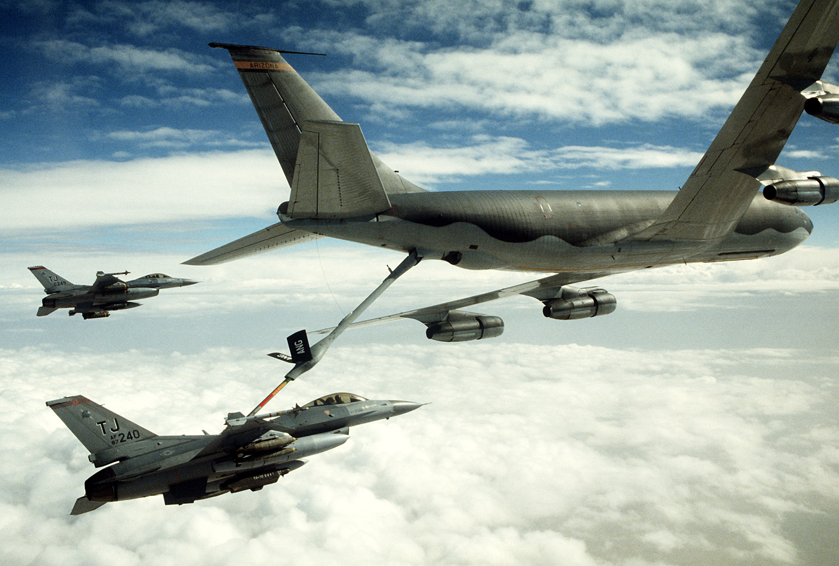 A U.S. Air Force F-16C Fighting Falcon fighter aircraft from the 401st Tactical Fighter Wing refuels from a U.S. Air Force KC-135 Stratotanker as another F-16 waits in formation during Operation Desert Storm.